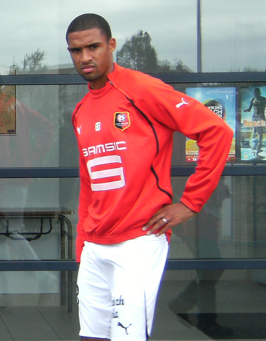 Samuel Souprayen before a friendly game between Stade rennais FC and Stade Malherbe de Caen in Ouistreham